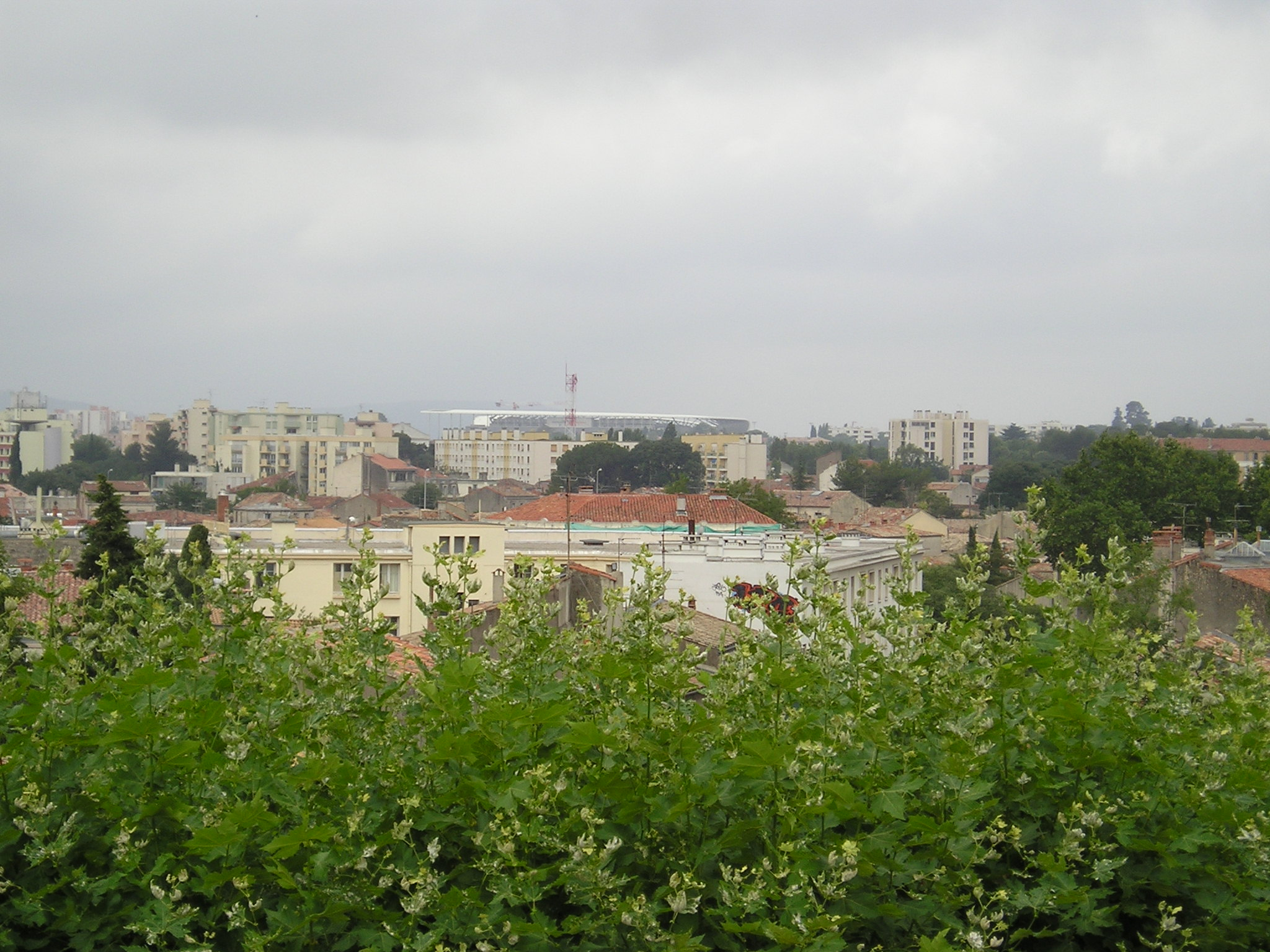 Montpellier, 23 July 2007 : Yves-du-Manoir rugby stadium see from the place du Peyrou, 2.4 km from the place.